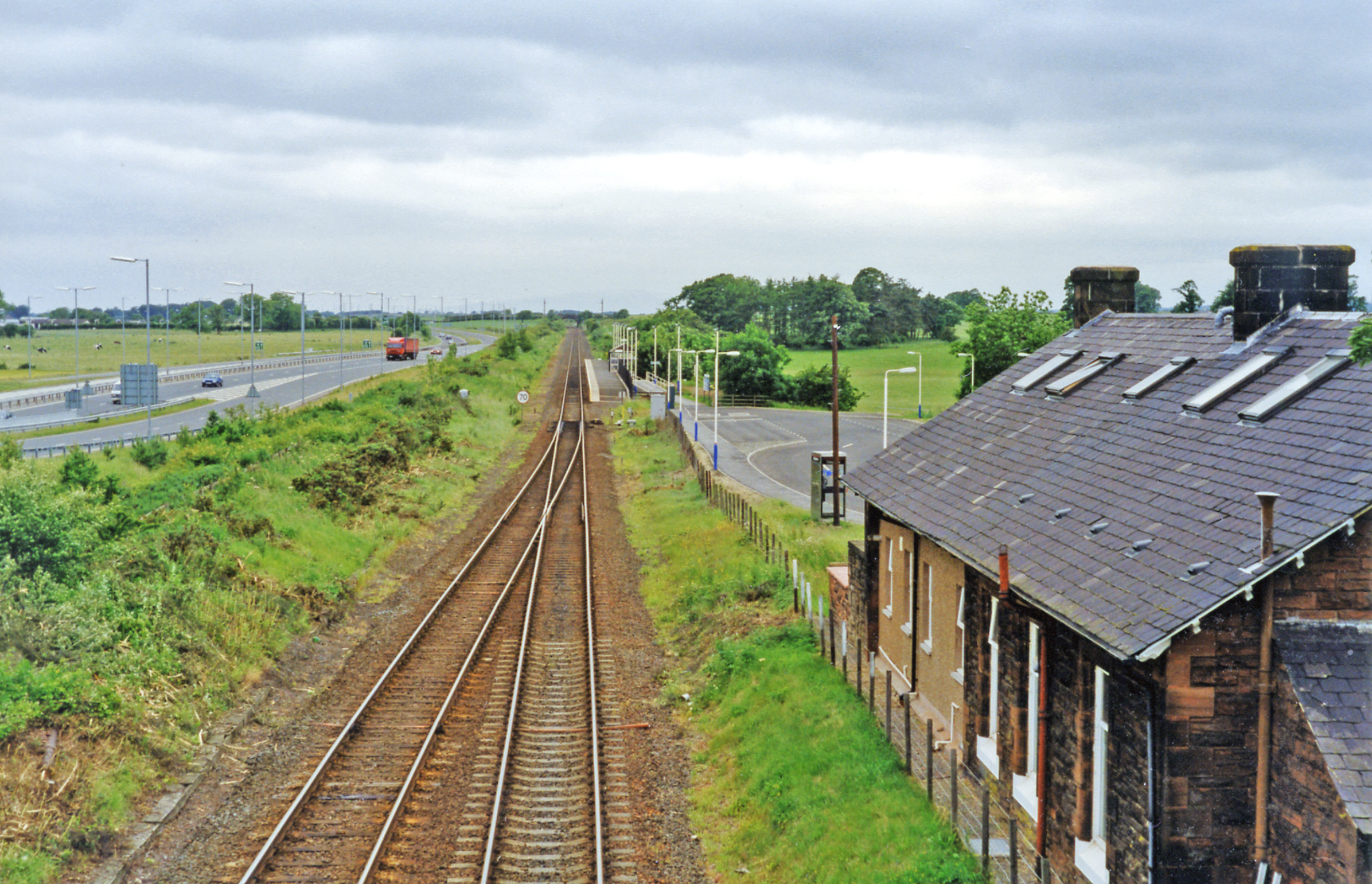 Gretna Green stations (closed and open), 1997. View westward, towards Dumfries etc.: ex-G&SWR Carlisle - Dumfries - Glasgow main line. The original station, in the immediate foreground, was closed 6/12/65 and soon after the main line was singled to Annan. However, on 20/9/93 a new station was built a short distance to the west - with a single platform as seen, but when the line was doubled again in 2008 another platform was provided on the Down side. Over to the left is the A75 road to Dumfries and Stranraer.